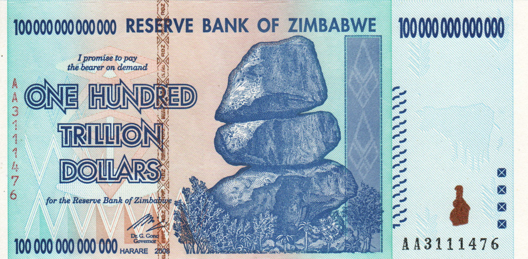 $100 000 000 000 000 Zimbabwe 2008 Obverse